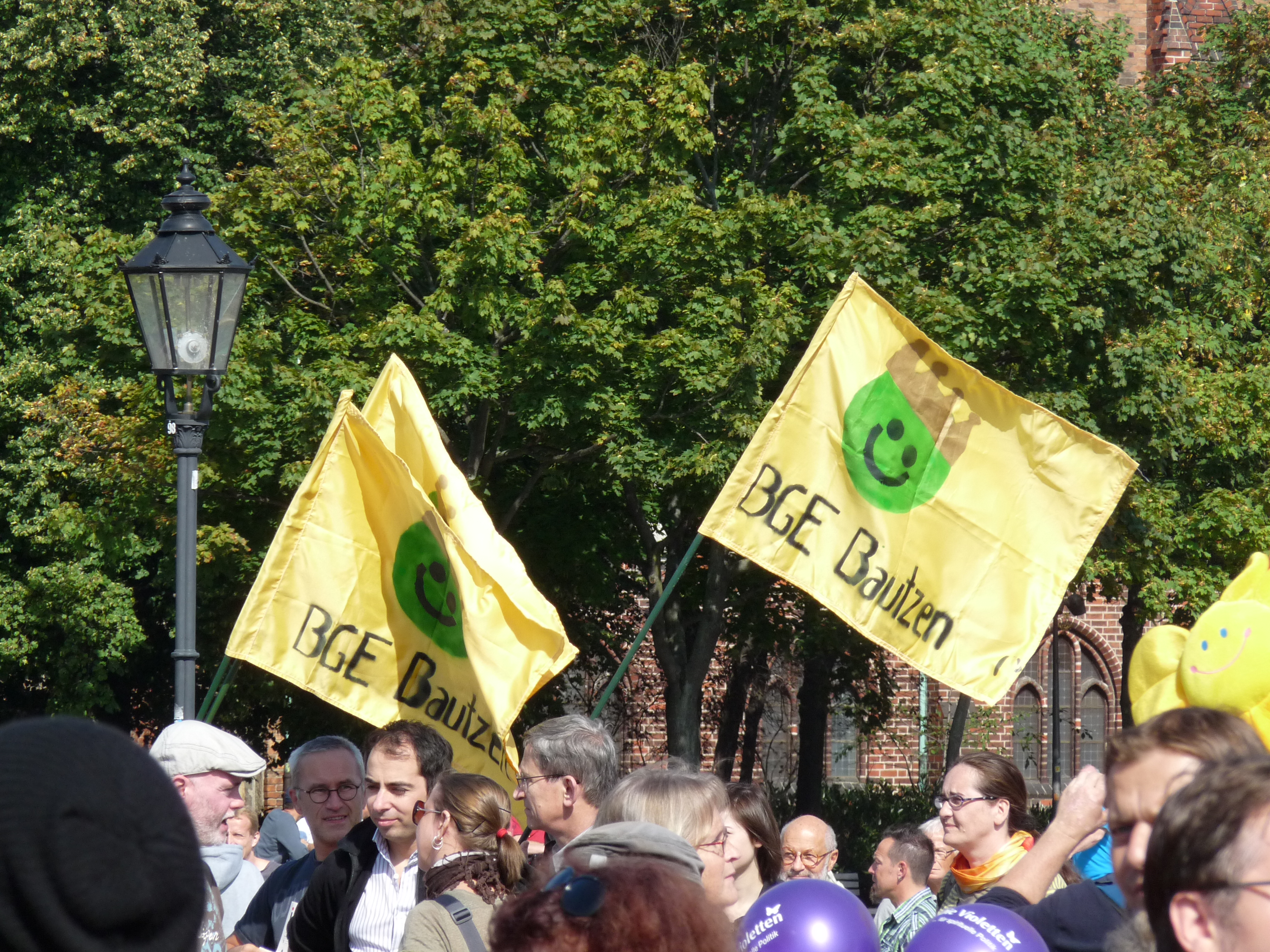 More than 2.000 people rallying for a Basic Income on the BGE-Demonstration on September 14, 2013 in Berlin